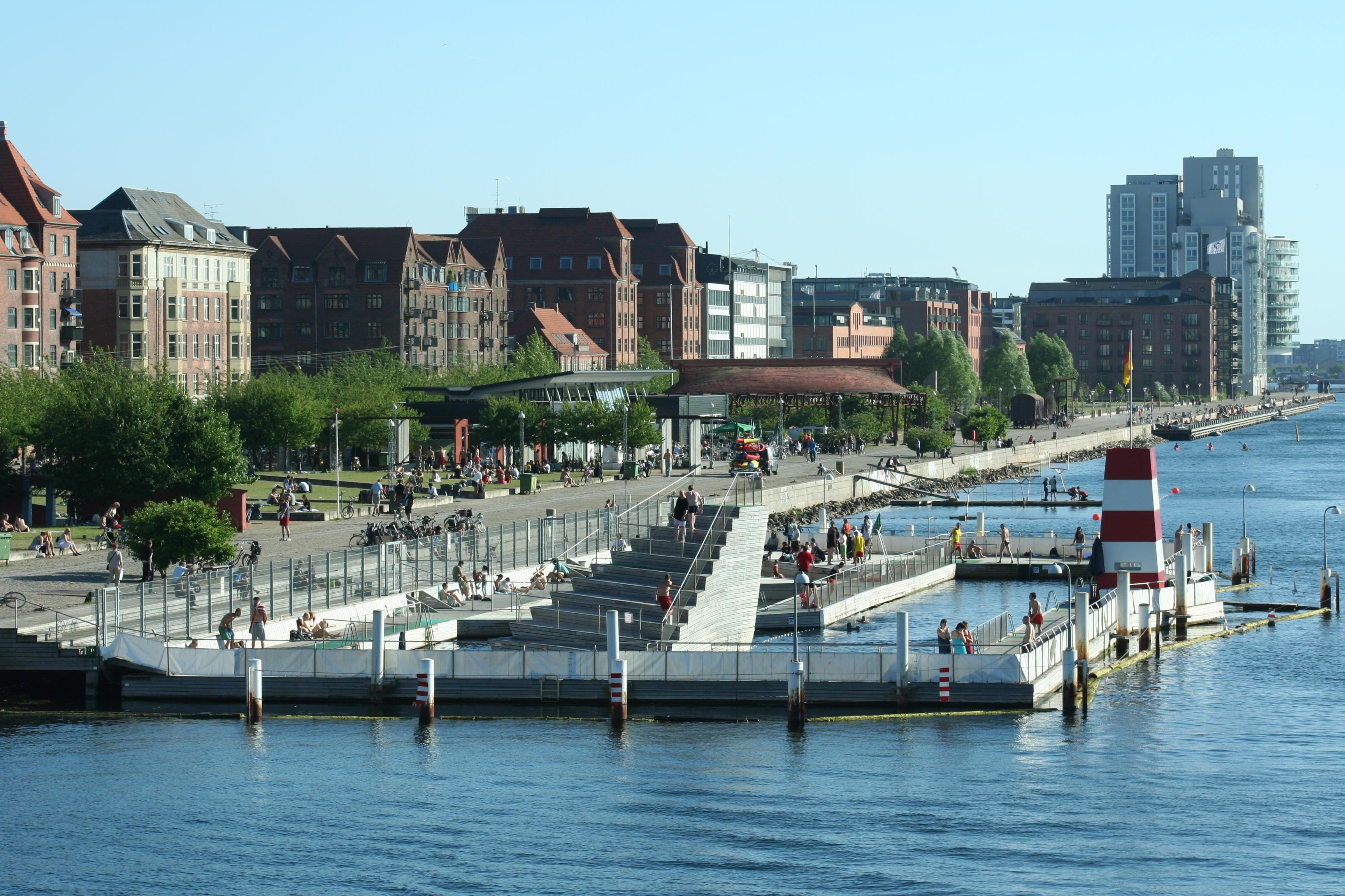 Islands Brtgge waterfront in Copenhagen, Denmark. The Islands Brygge Harbour Bath in the foreground